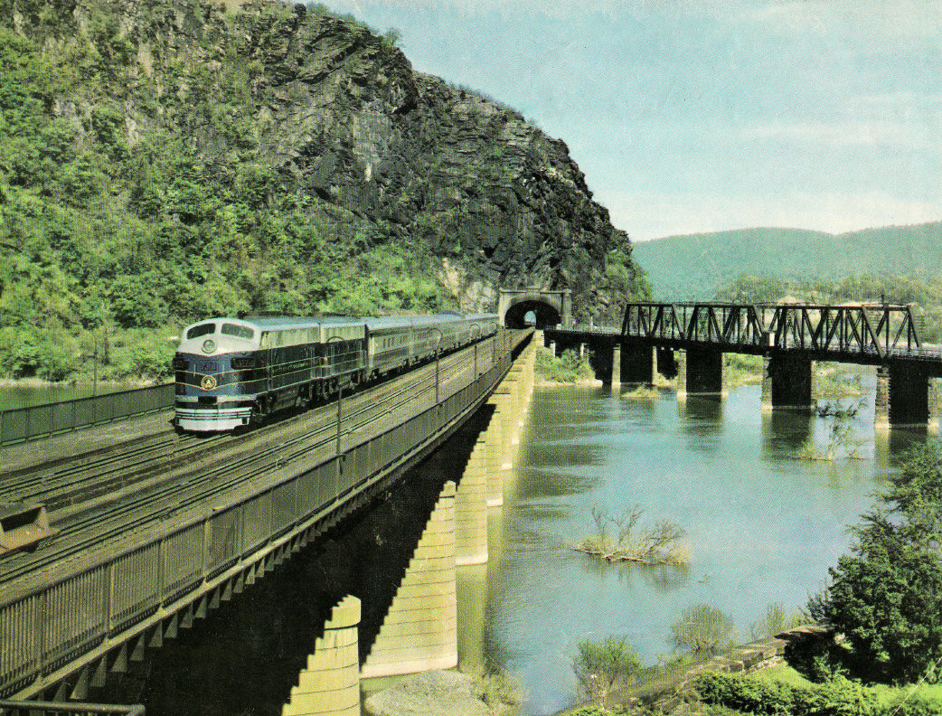 The Baltimore and Ohio Railroad's new Columbian passenger train in a publicity pose at Harpers Ferry, West Virginia in 1949.